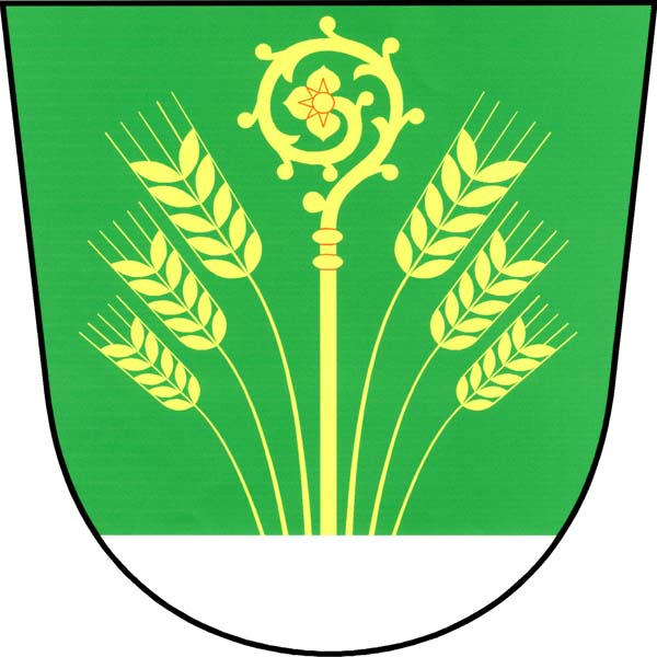 Municipal coat of arms of Dolany village, Pardubice District, Czech Republic.